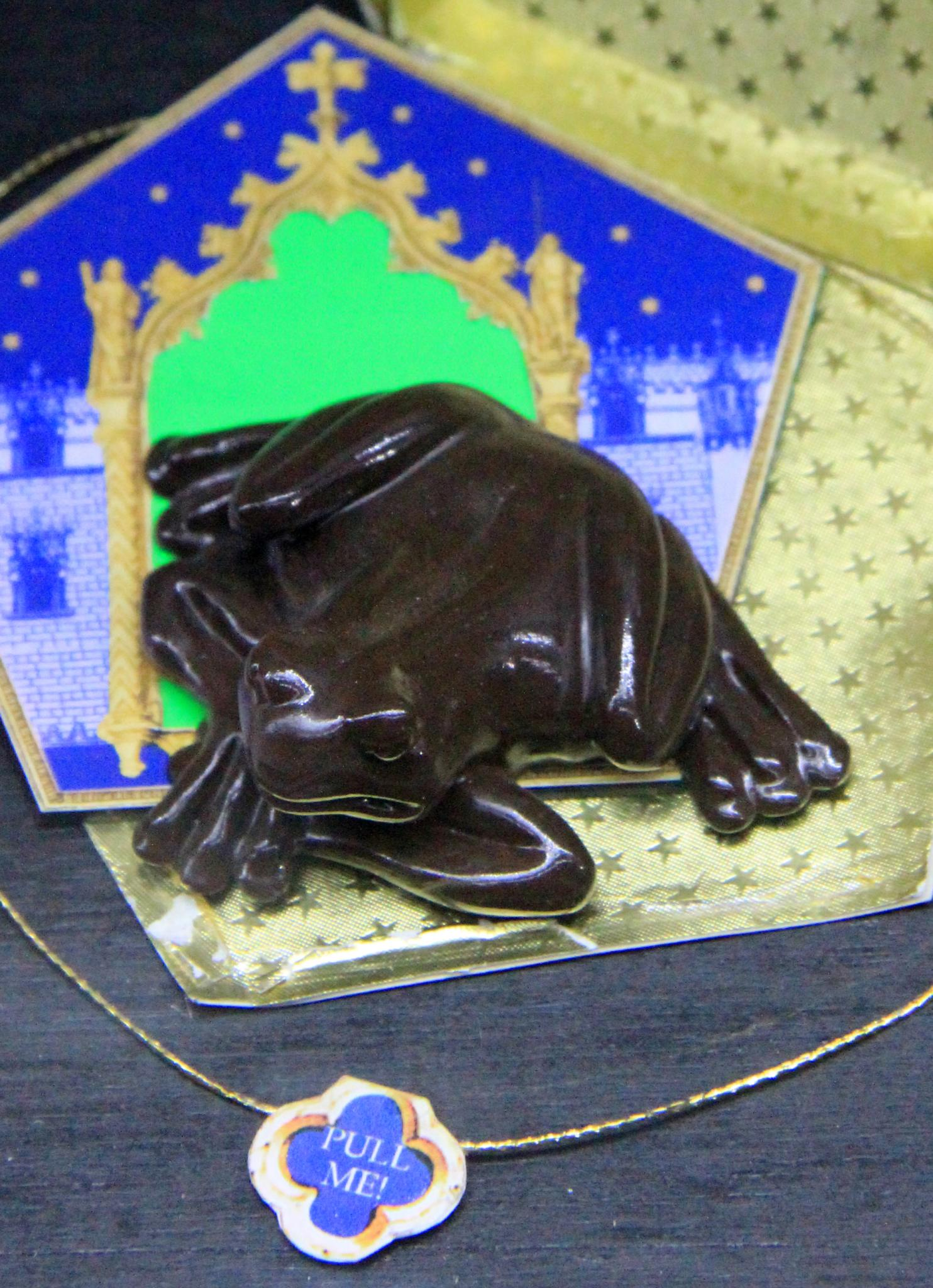 Warner Bros. Studio Tour London: The Making of Harry Potter.